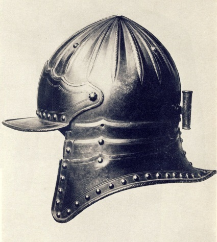 Photograph